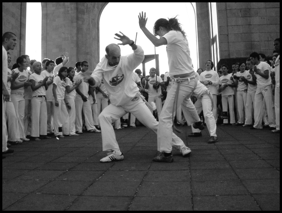 Mestre Camisa doing a rasteira em pé